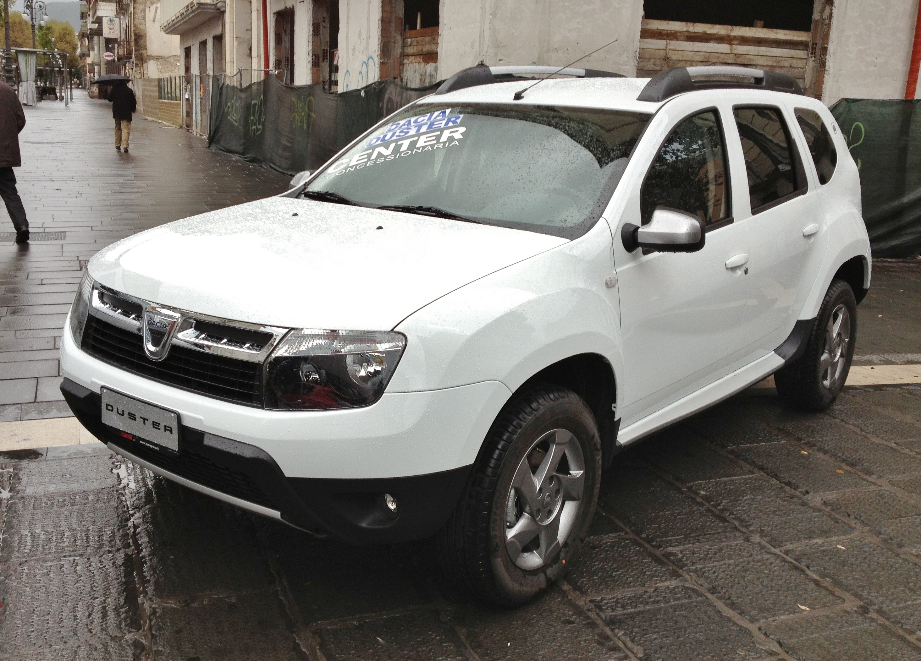 2012 Dacia Duster 1.5 dCI front